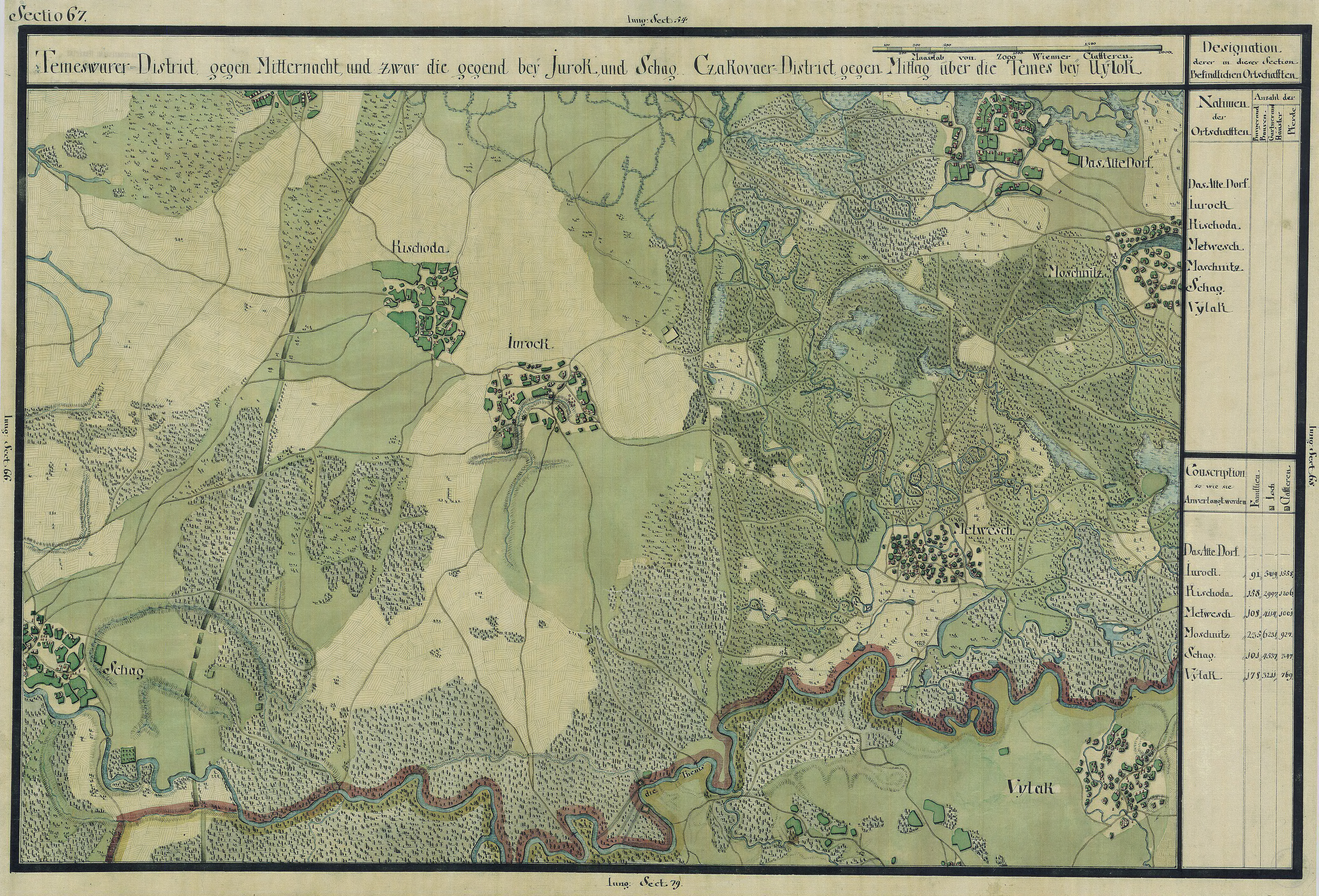 The Banat region in the cadastral maps: Josephinische Landesaufnahme, 1769-72. Josephinische Landaufnahme pg067